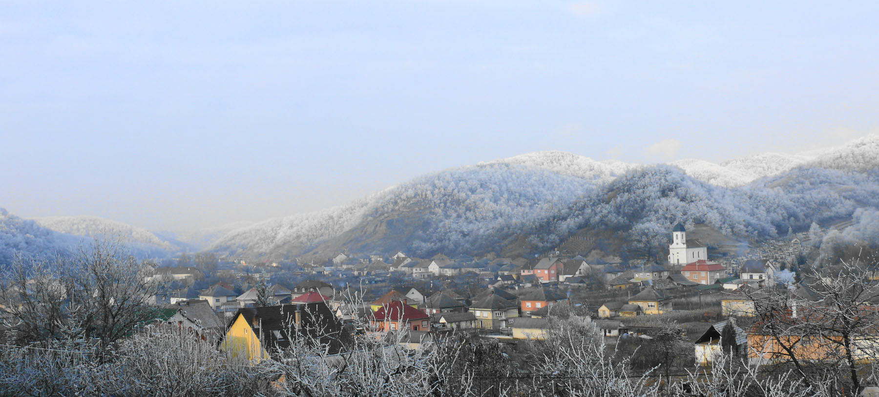 Panorama of the village Istenmezeje Hungary